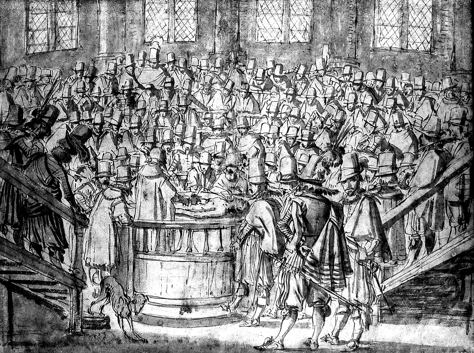 Pen drawing: the anatomy theatre at Leiden during a dissection. Wellcome Images Keywords: Anatomy; Willem Buytenwegh